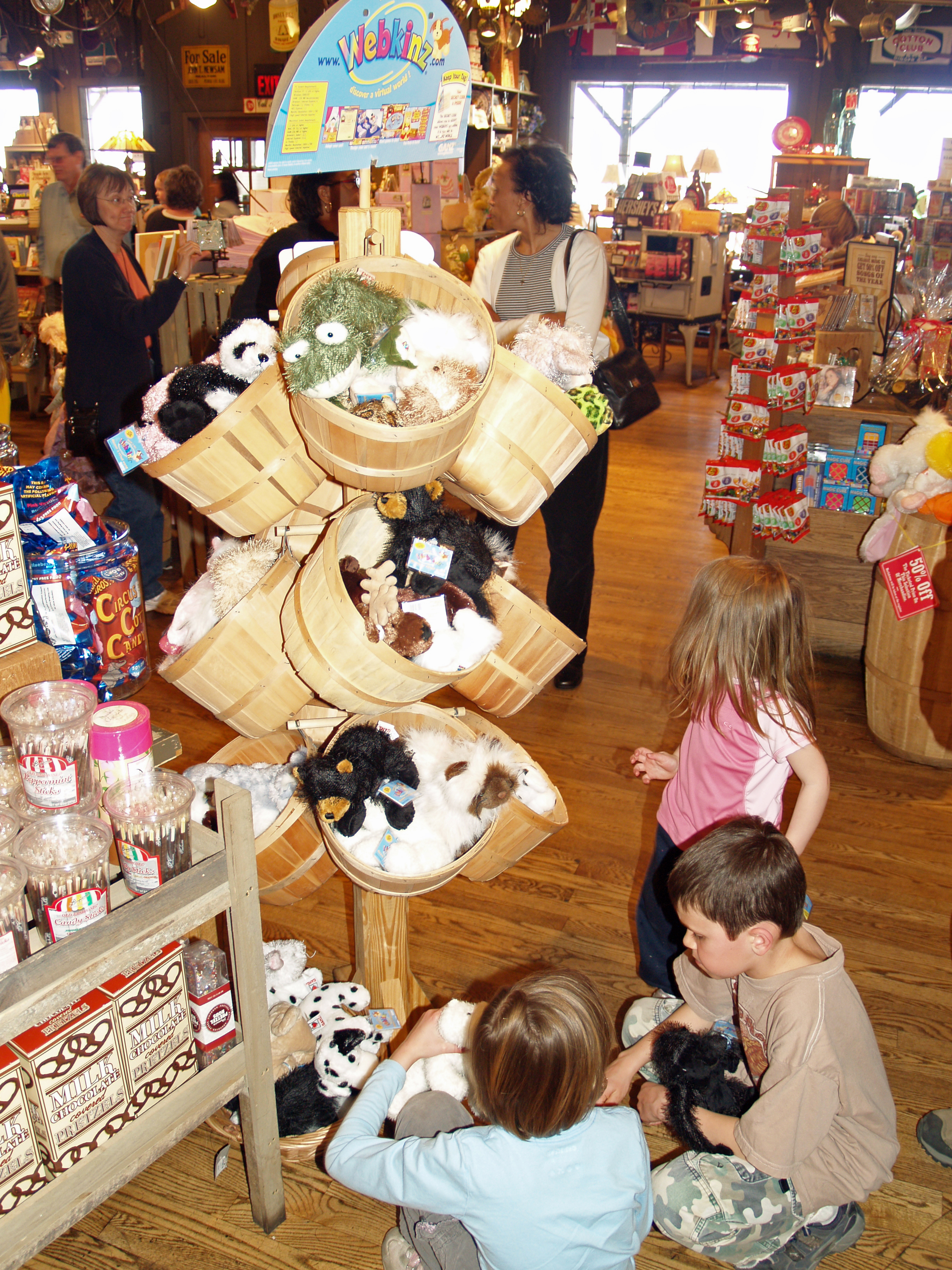 Kids looking through bins of Webkinz at a Cracker Barrel in Pueblo, Colorado, USA.